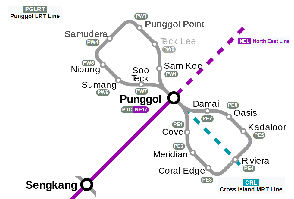 Singapore Punggol LRT Map